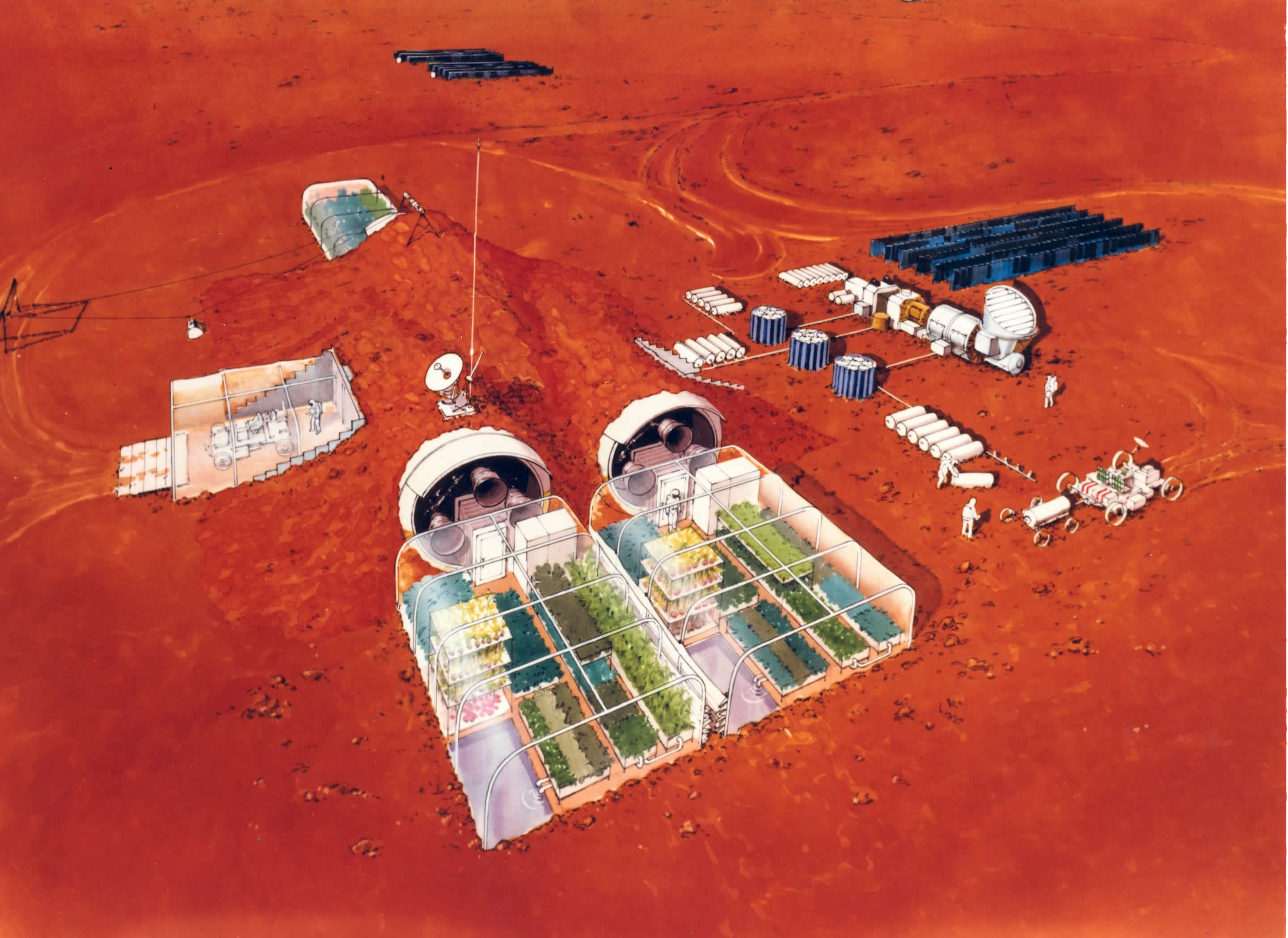 Artist's concept of living quarters covered with soil to shield the crew from the sun’s radiation. The extended base has greenhouse and a pressurized work facility where full spacesuits would not be required. This artist conception (being released by NASA) was provided by CASE FOR MARS, an independent organization concerned with a Mars mission.